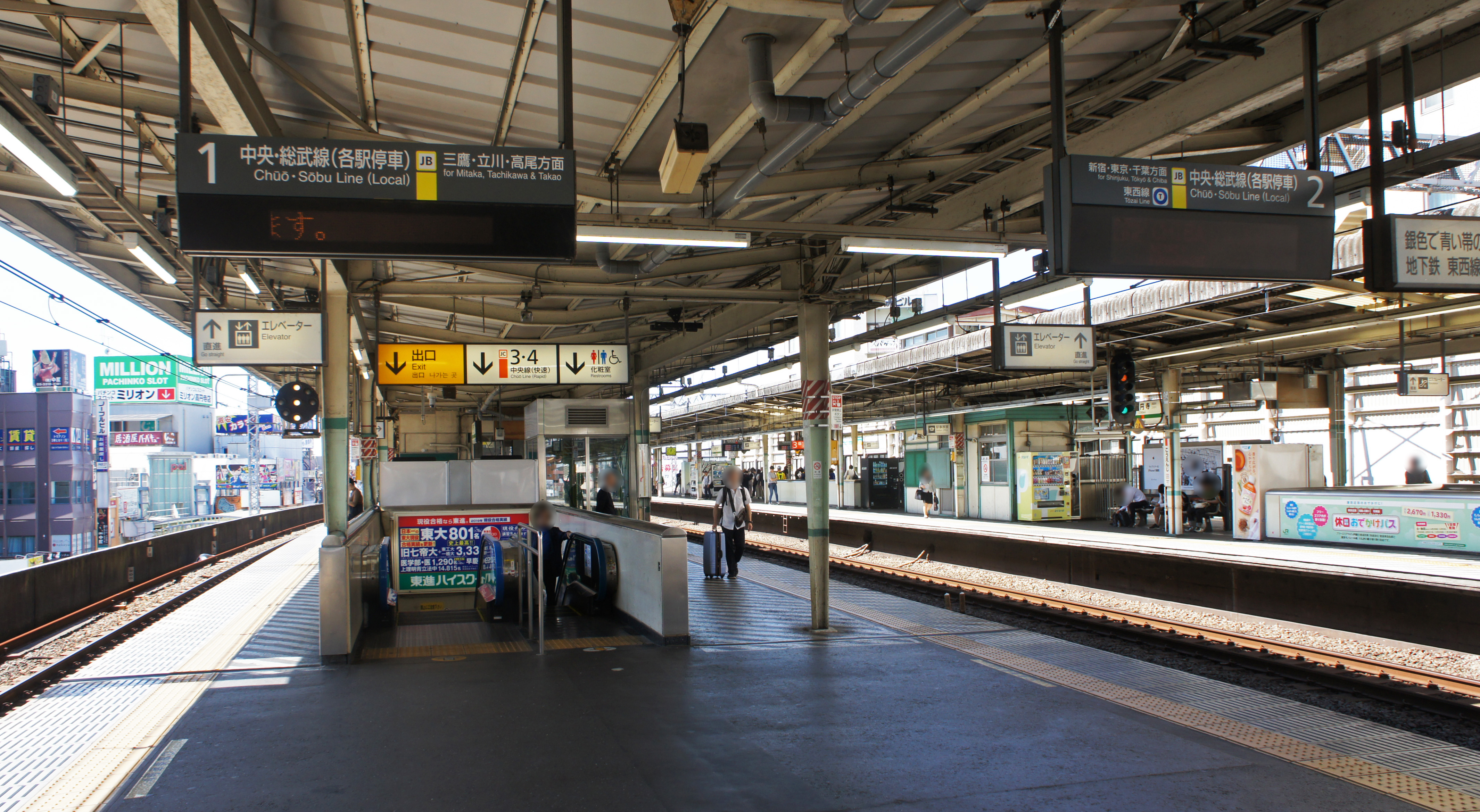 Platform 1・2 (Chuo-Sobu Line) of JR Chuo-Main-Line Koenji Station